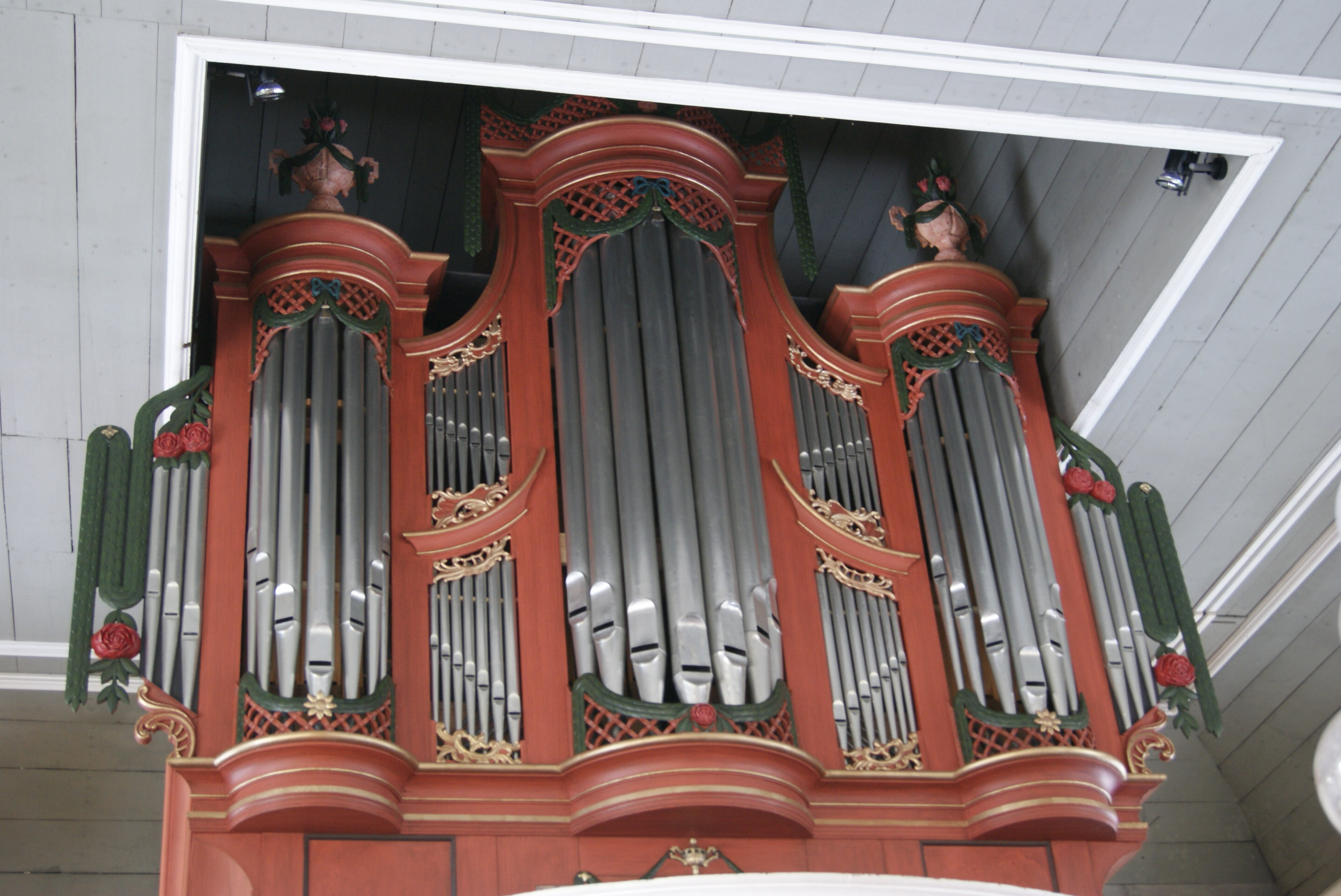 The pipe organ in the Evangelical Lutheran Church in Burhafe, Lower Saxony, Germany.